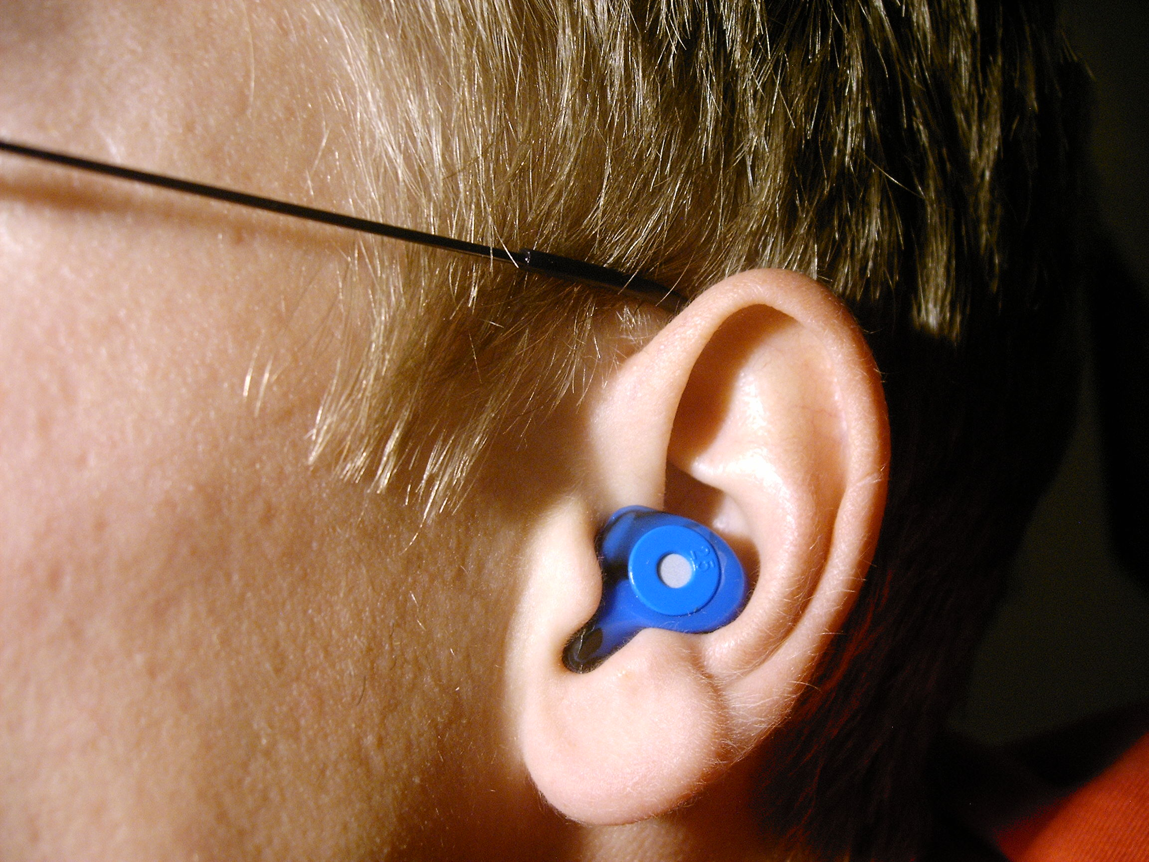 Individual silicone earplug worn at ear with Etymotic Research Filter-element ER-25.